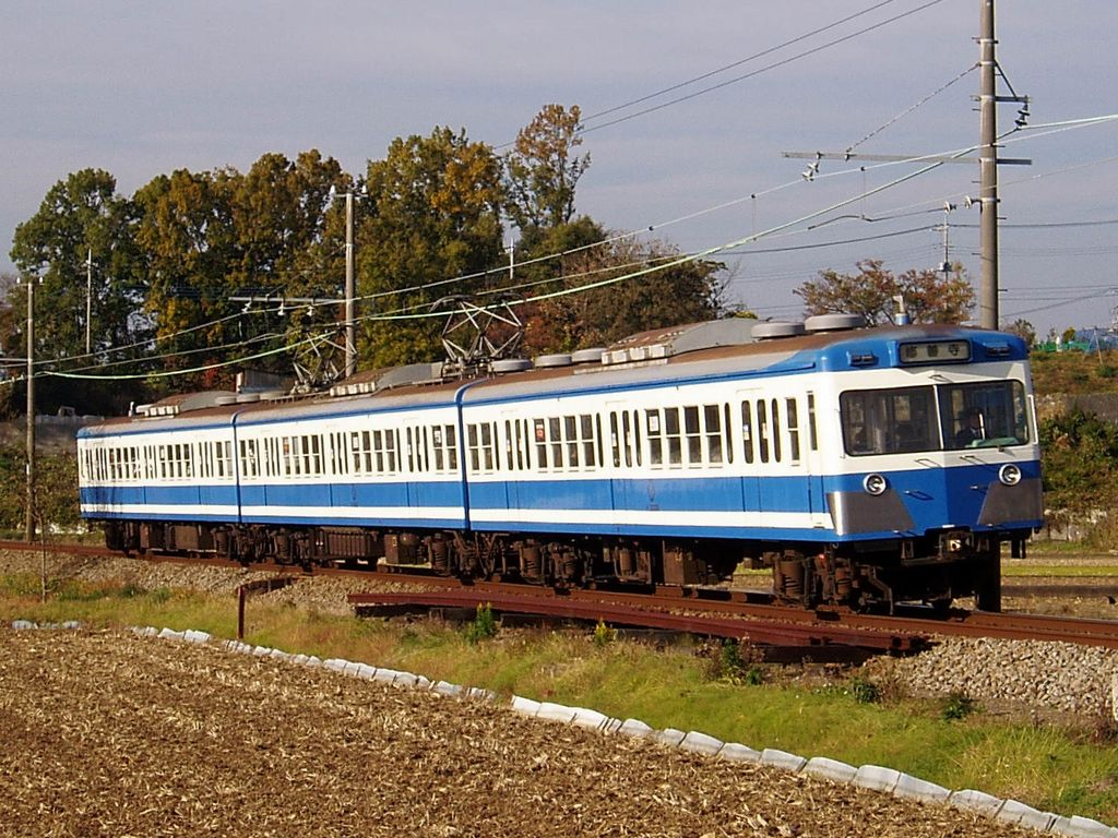 Isuhakone Railway at between Mishima-Futsukamachi Sta. and Daiba Sta. EMU Type 1100 2007.11.26 Photo by Cassiopeia_sweet.